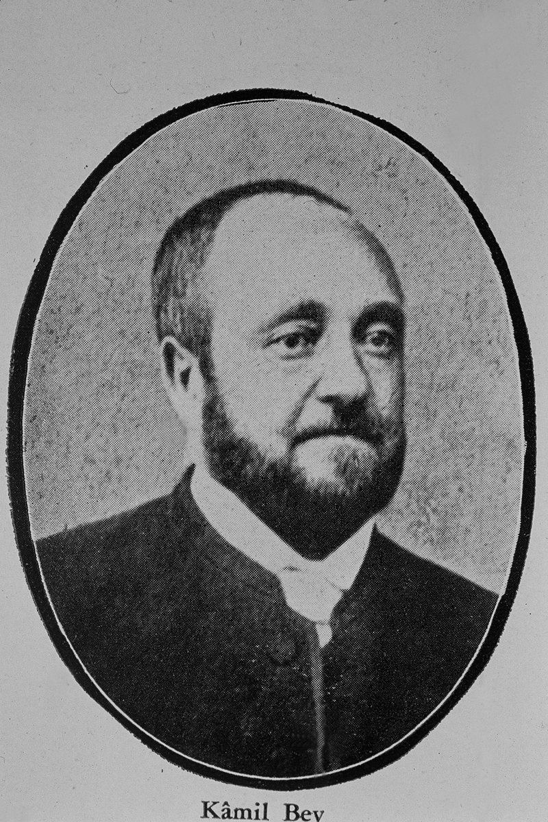 On 13 March 1870, Mehmed Kâmil Bey, known by the nickname “Mahşer Midillisi” (literally, meaning, pony of the apocalypse), signed a deed of endowment stipulating that there should be a prayer recitation at the Kasımpaşa Mevlevi Dervish Lodge for the soul of his late wife. In return for their prayers, the endowment would meet the candle and coffee needs of the dervishes. What made the endowment rather interesting was that it was not offered in cash but in bonds to the amount of £260, the yearly return of which would be delivered to the lodge. Since these bonds were to be deposited at the Ottoman Bank, the sheiks became bank customers. Thus was born an interesting link between tradition and modernity, which would continue until 1925, when a new law banned all dervish lodges in Turkey. bit.ly/1sPz4AP SALT Research, Ottoman Bank Archive “Mahşer Midillisi” lakabıyla bilinen Mehmed Kâmil Bey, kaybetmiş olduğu eşinin ruhuna dua okunması için 13 Mart 1870 tarihli bir senetle Kasımpaşa Mevlevihanesi’ne bir vakıfta bulundu. Mevlevihanedeki tarikat mensuplarının kandil ve kahve ihtiyaçlarını karşılayacak bu vakfın en ilginç tarafı, vakfedilenin 260 sterlin değerinde tahviller olmasıydı. Üstelik, bu tahvillerin Osmanlı Bankası’na emanet edilmesiyle Mevlevihane şeyhleri dolaylı olarak banka müşterisi konumuna gelmişti. Gelenekle modern dünyayı bir araya getiren bu ilginç ilişki, 1925’te tekkelerin kapatılmasına dair kanunun çıkarılmasıyla sona erdi. bit.ly/1sPyQtw SALT Araştırma, Osmanlı Bankası Arşivi